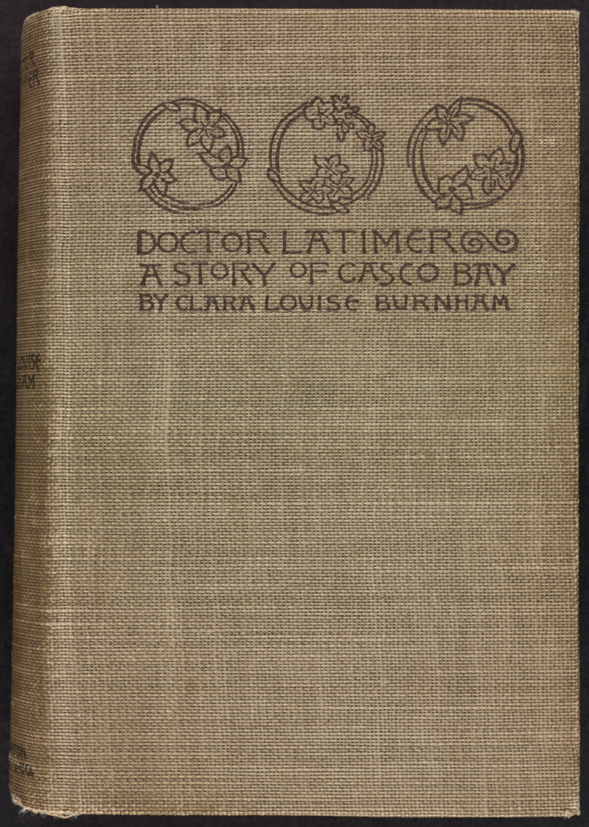 File name: 06_04_000162Title: BURNHAM(1893) Doctor Latimer - a story of Casco BayDate issued: 1893Genre: Book coversNotes: Burnham, Clara Louise, 1854-1927 (Author)Collection: Sarah Wyman Whitman BindingsLocation: Boston Public Library, Special CollectionsRights: No known copyright restrictions.